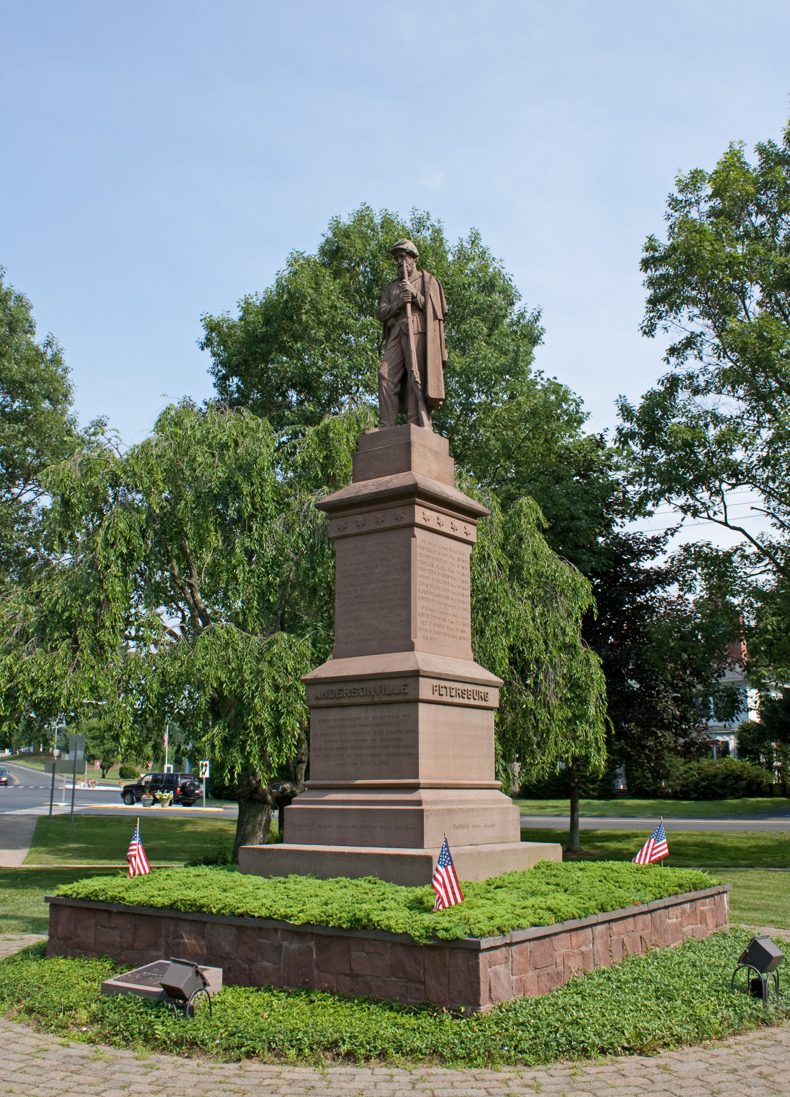 Soldiers' Monument memorial to soldiers of the American Civil War in the center of Granby, Connecticut. Dedicated on July 4, 1868, it includes an inscription crediting James G. Batterson but was most likely sculpted by Charles Conrads on a pedestal by architect George Keller - both employees of Batterson at the time.[1]